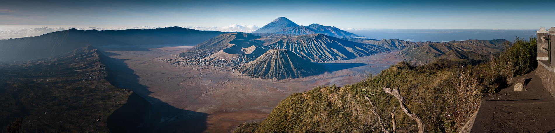 Sunrise over Mount Bromo, East Java. View from Mount Pananjankan. Village on the left is called Cemero Lawang.